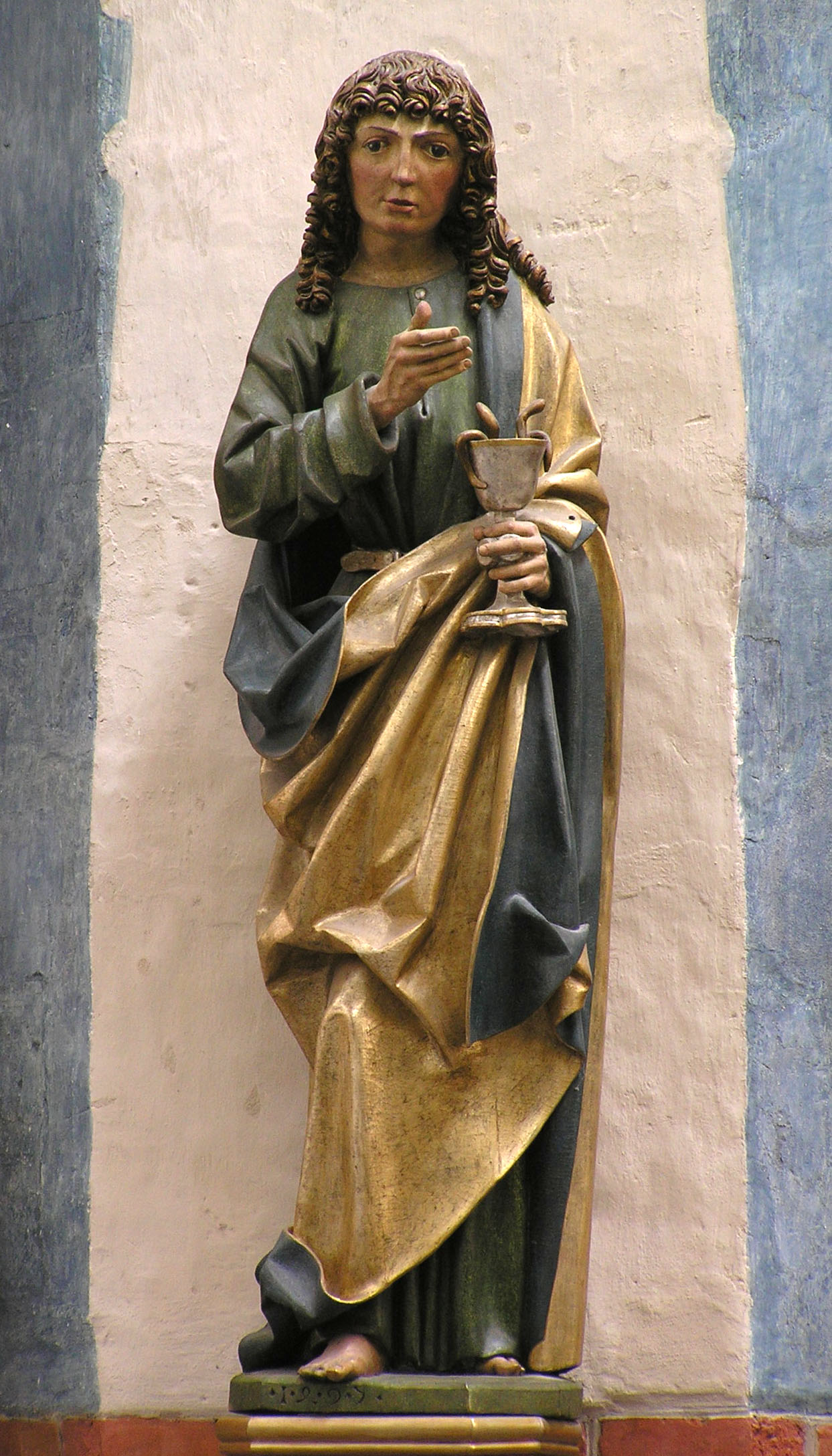 Toruń, church of SS. Johns, gothic sculpture of St. John the Evangelist, 1497, Workshop of St. Wolfgang